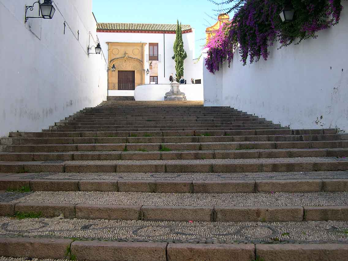 Cuesta del Bailío, in Córdoba (Spain).